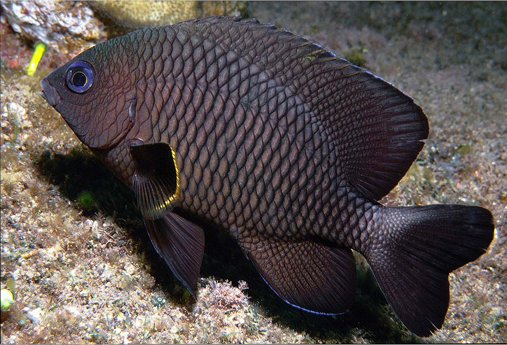 Stegastes leucorus in Revillagigedo